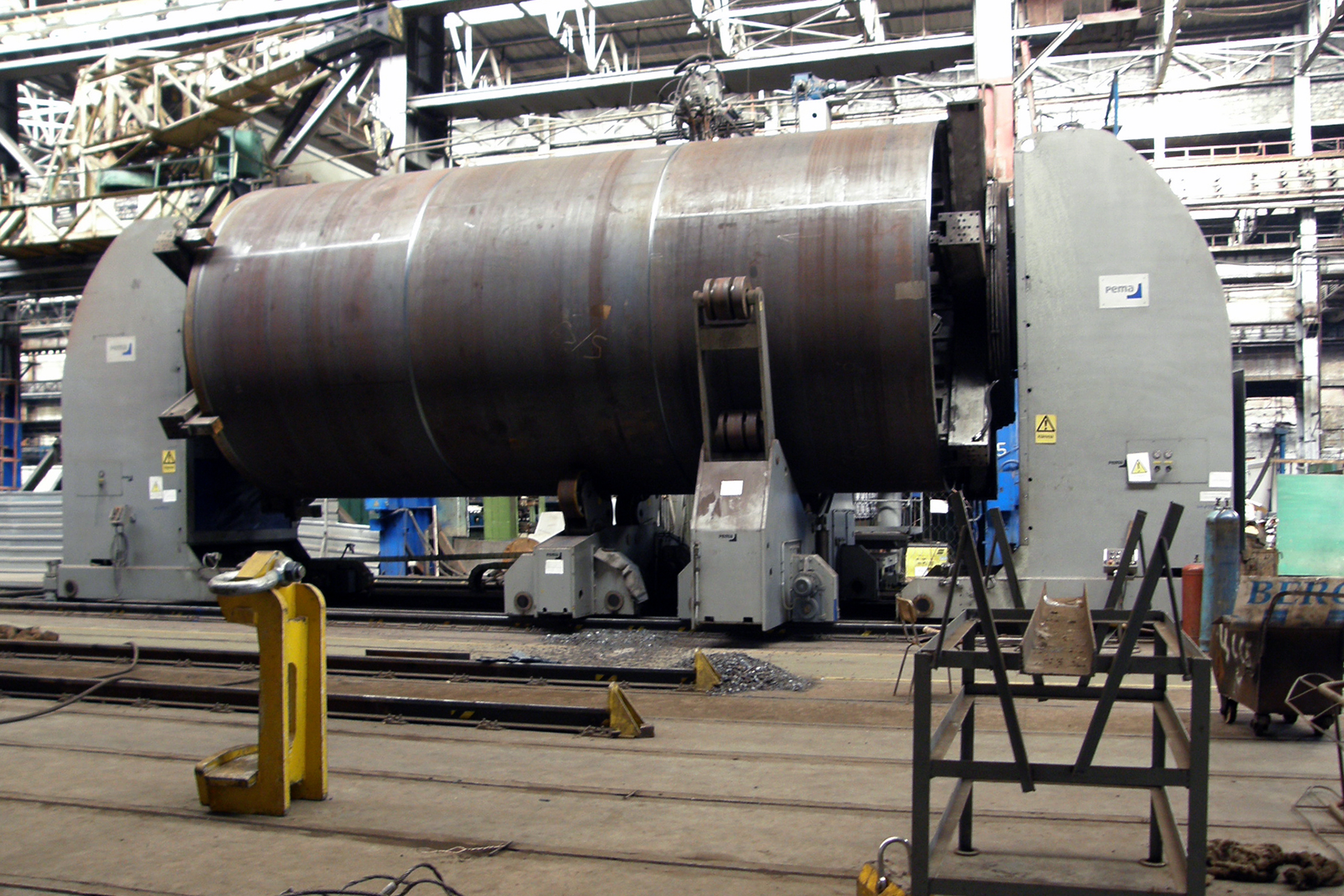 assembling of wind turbine tower with automatic welder